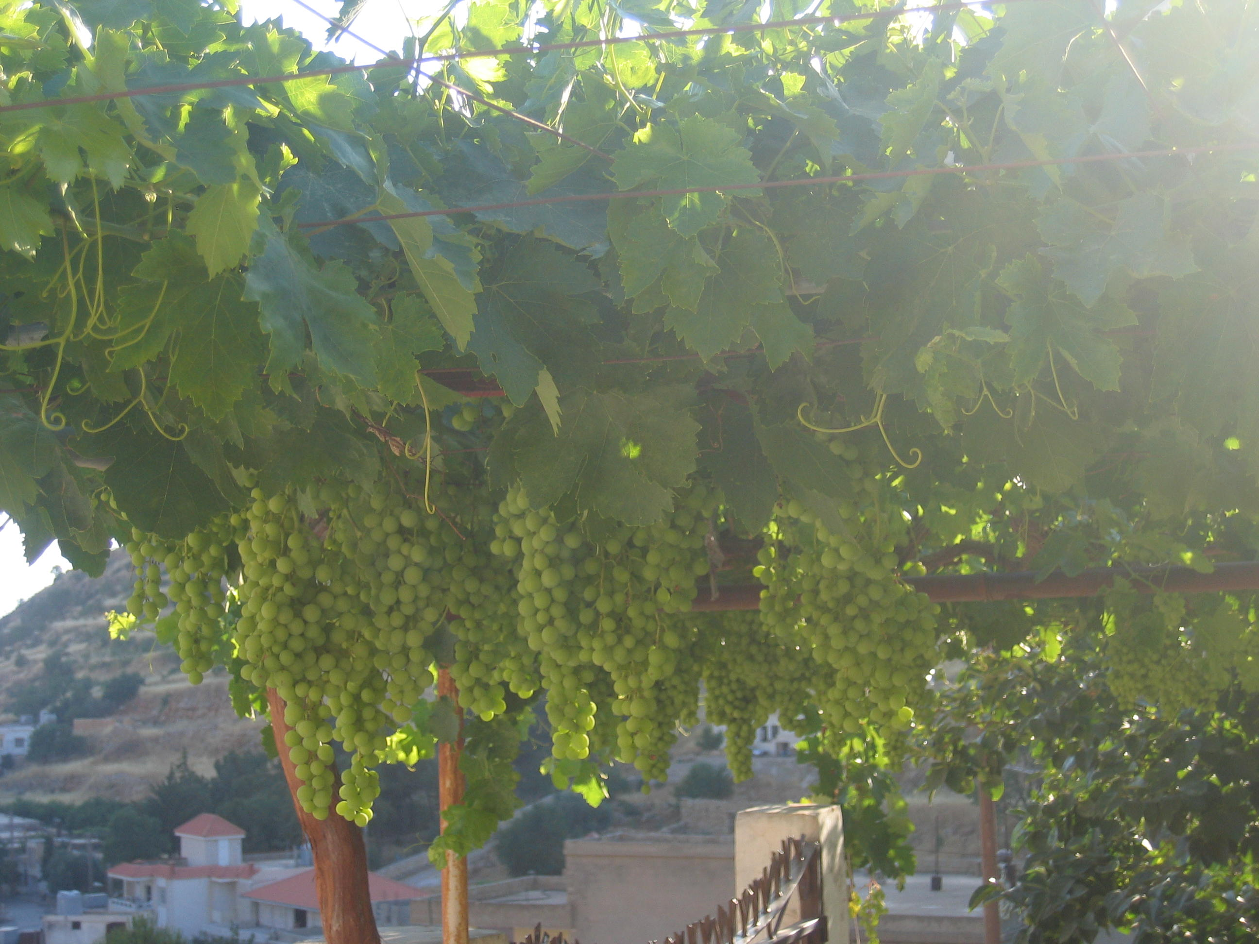 Grapevine from the Village of Aita al-Foukhar in Lebanon